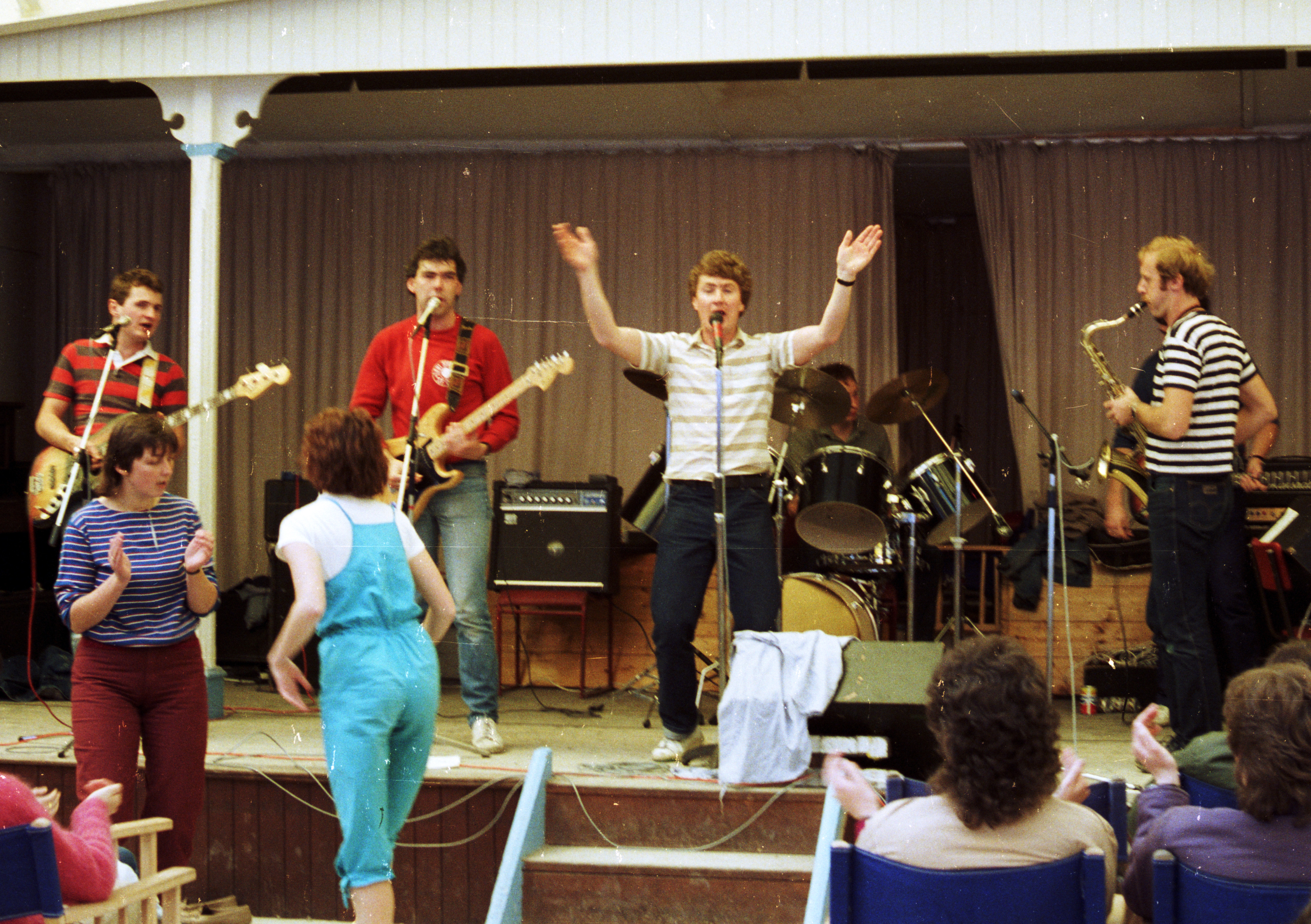 Y Trwynau Coch - Aberystwyth 1985